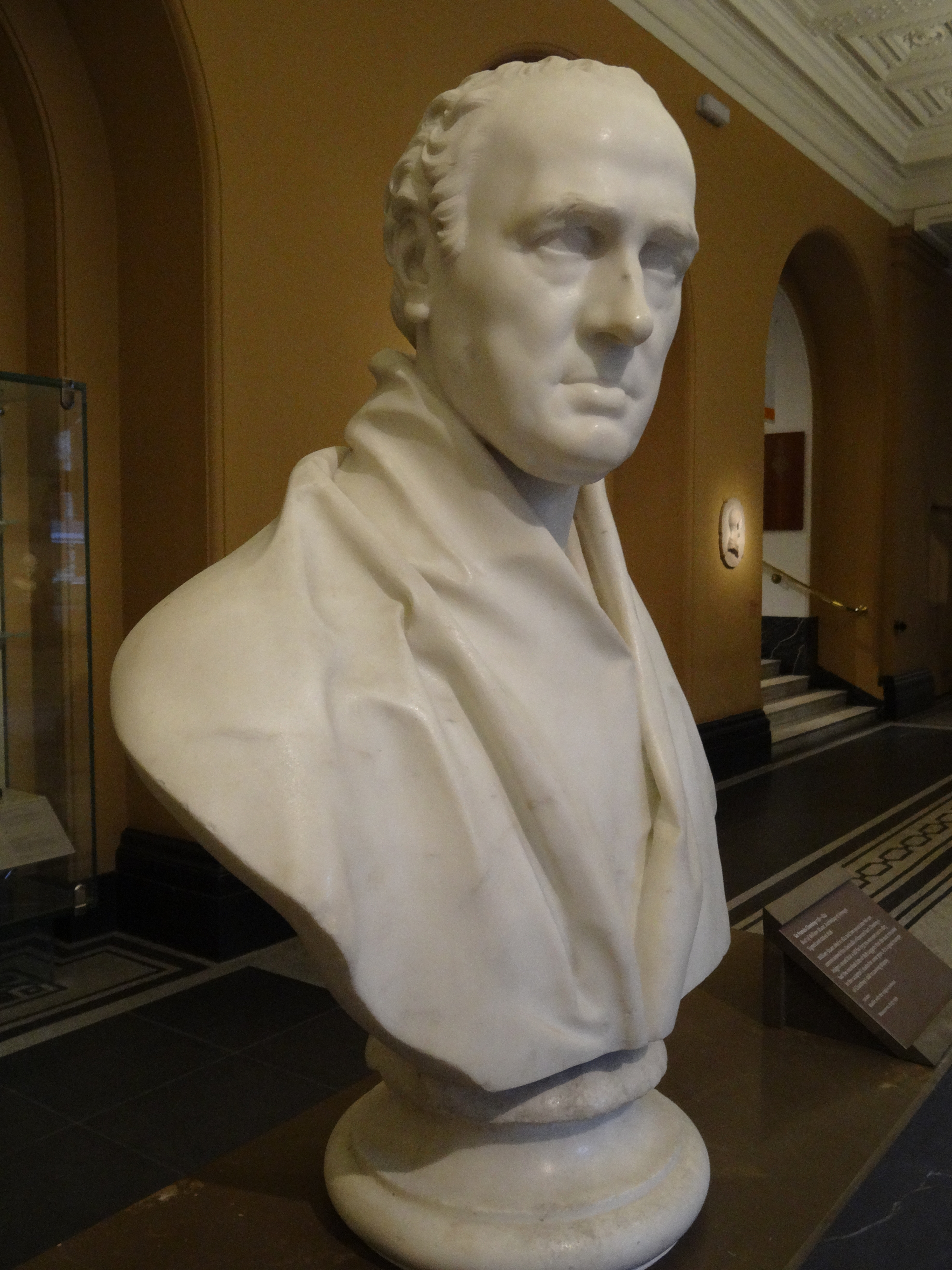 Archbishop William Stuart by Francis Chantrey